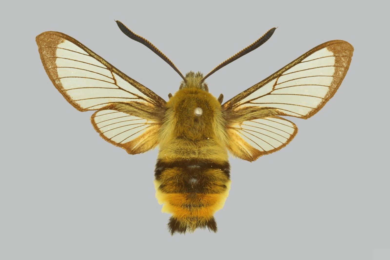 Hemaris tityus, male, upperside. Switzerland, Vaud